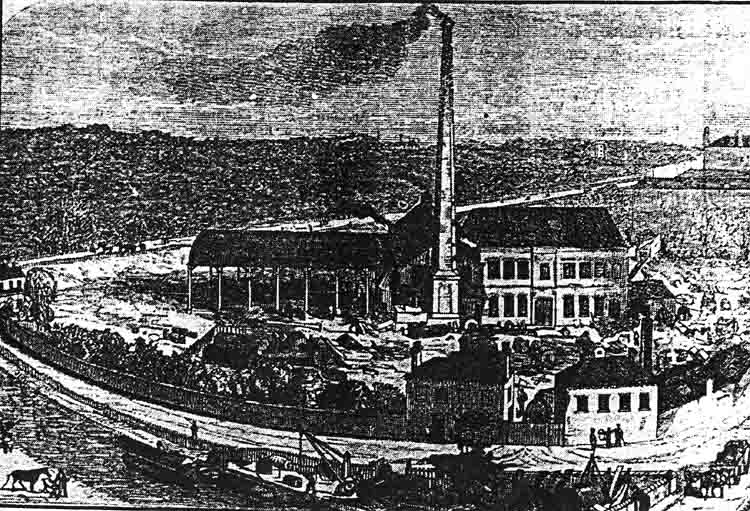 Engraving made about 1865 showing Thomas Clunes' Vulcan Iron Works between Cromwell Street, Worcester and the Birmingham & Worcester Canal.